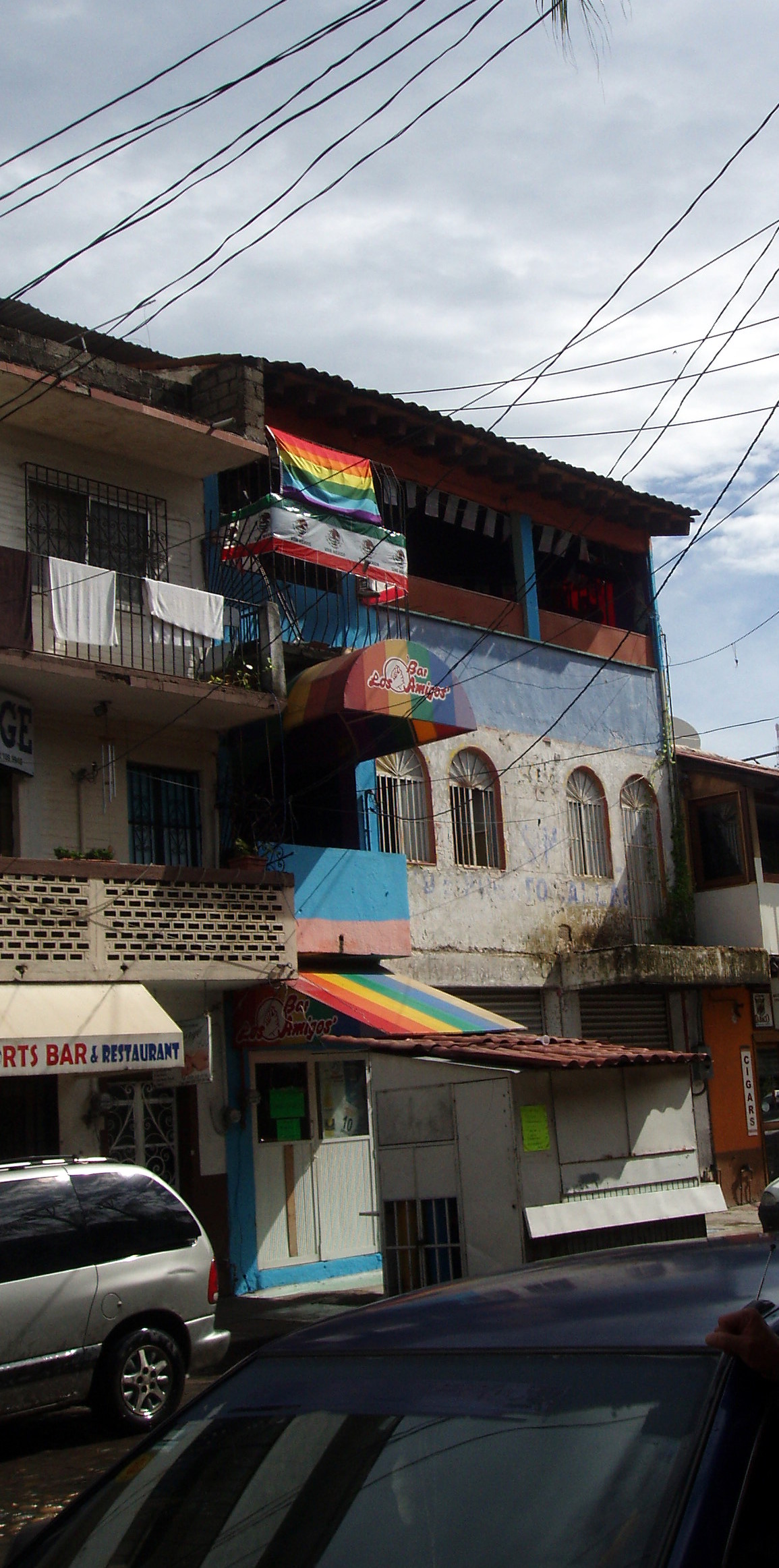 typical gay club in Vallarta